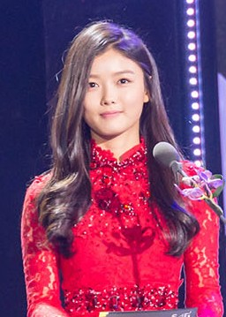 Kim Yoo-jung at the 2014 SBS Entertainment Awards, 30 December 2014